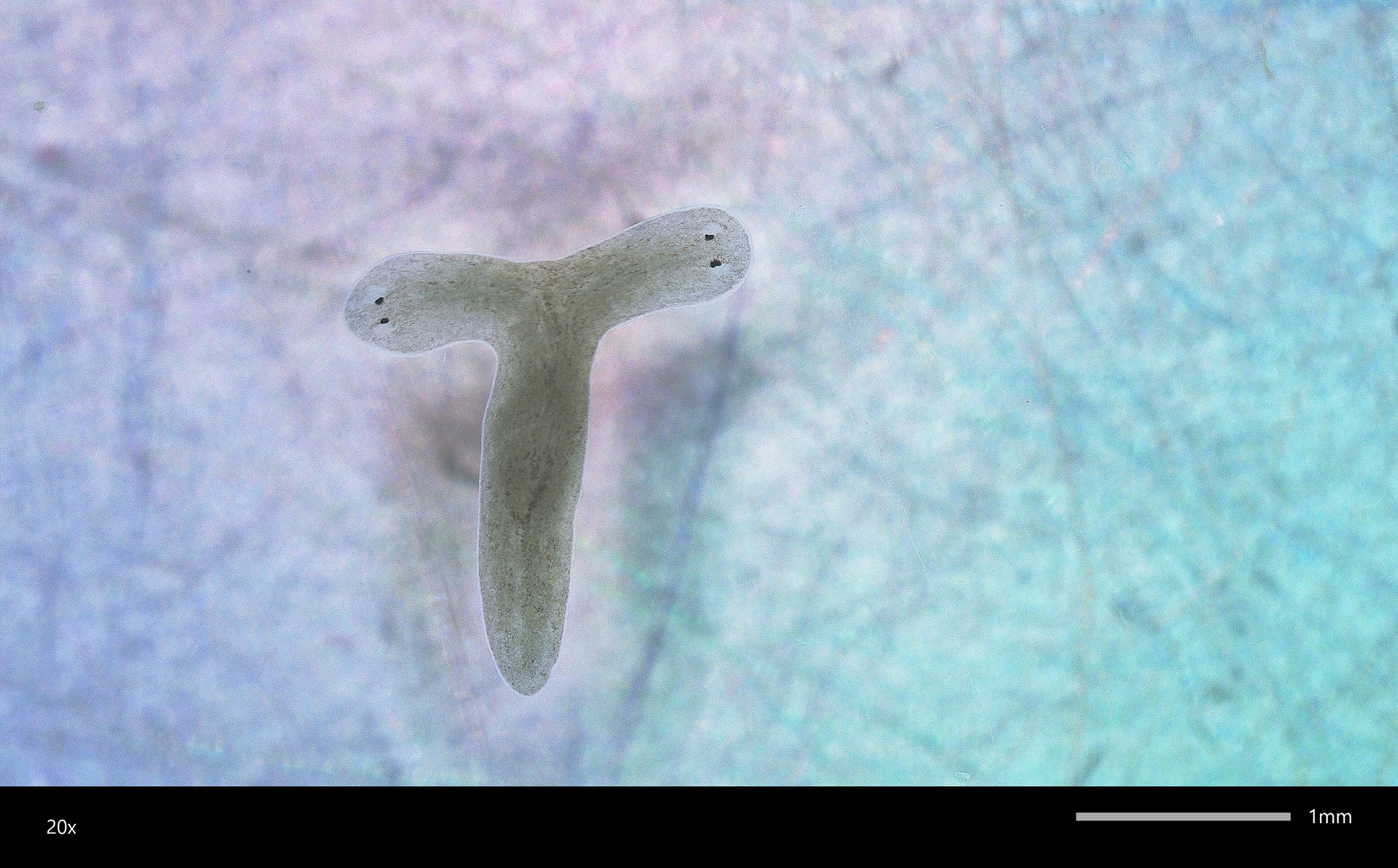 Spontaneous mutation occured during regeneration of Schmidtea mediterranea